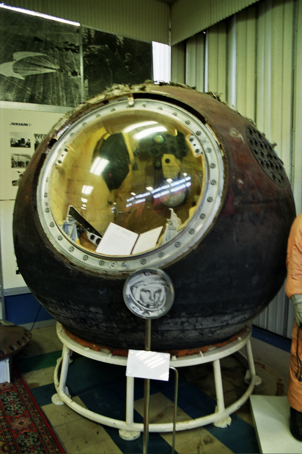 The Vostok 1 capsule as recovered after landing. Currently on display at the RKK Energiya museum in Korolyov